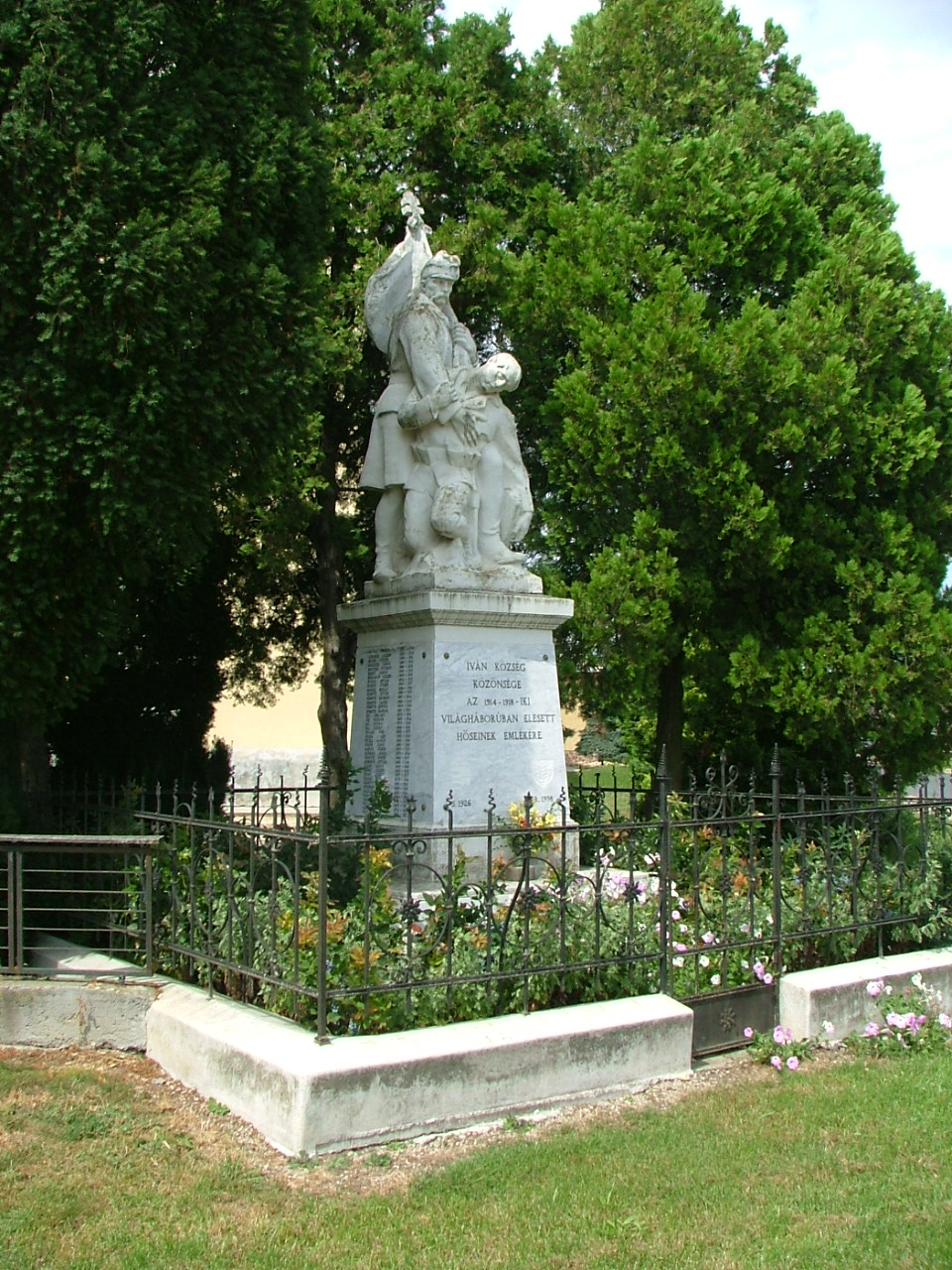 WWI memorial in Iván